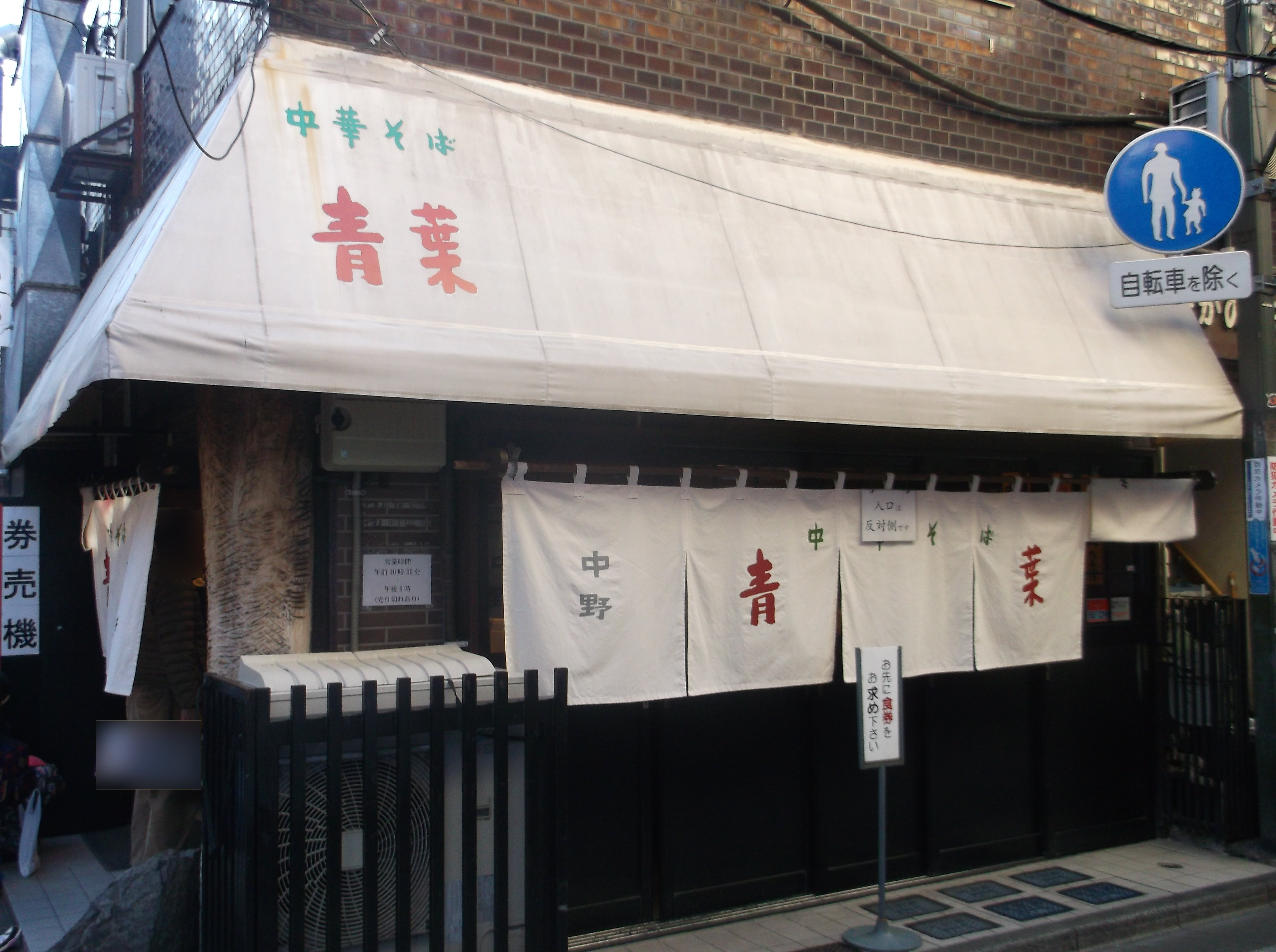 A photo of "Chuka Soba Aoba"(a ramen shop in Tokyo.) Nakano head store,Nakano,Nakano-ku,Tokyo,Japan.